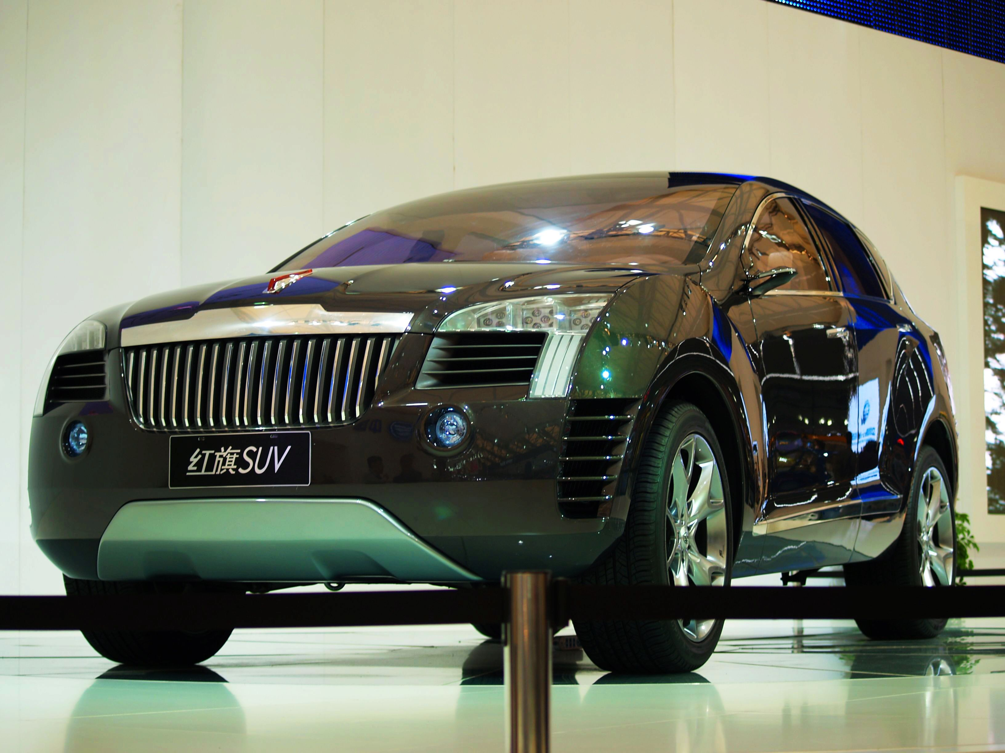 FAW showed the Hongqi SUV concept car at the 2009 Shanghai Auto Show.